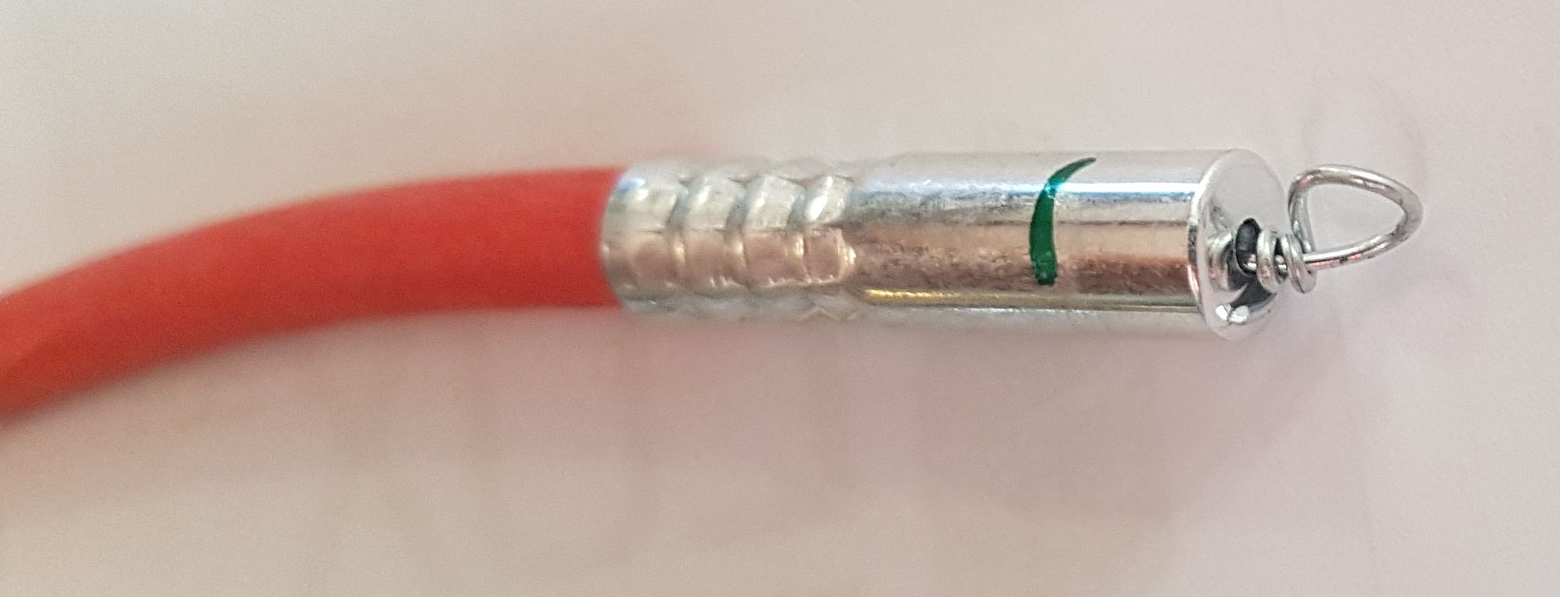 Break igniter (also: pull wire (fuse) lighter, pull wire fuze lighter) with a firing blasting cord (red). The freshly cut fuse end is inserted in the open end of the lighter until it touches the end of the wire, which is then deliberately pulled, setting off a mechanical lighting arrangement.